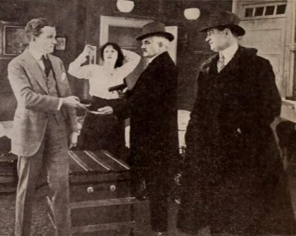 Still from The House of Glass (1918) with Pell Trenton, Norman Selby aka Kid McCoy and William Waltman as the detectives, and Clara Kimball Young in the background holding up a necklace, making this an important scene in the early plot of the film, on page 23 of the March 16, 1918 Exhibitors Herald.